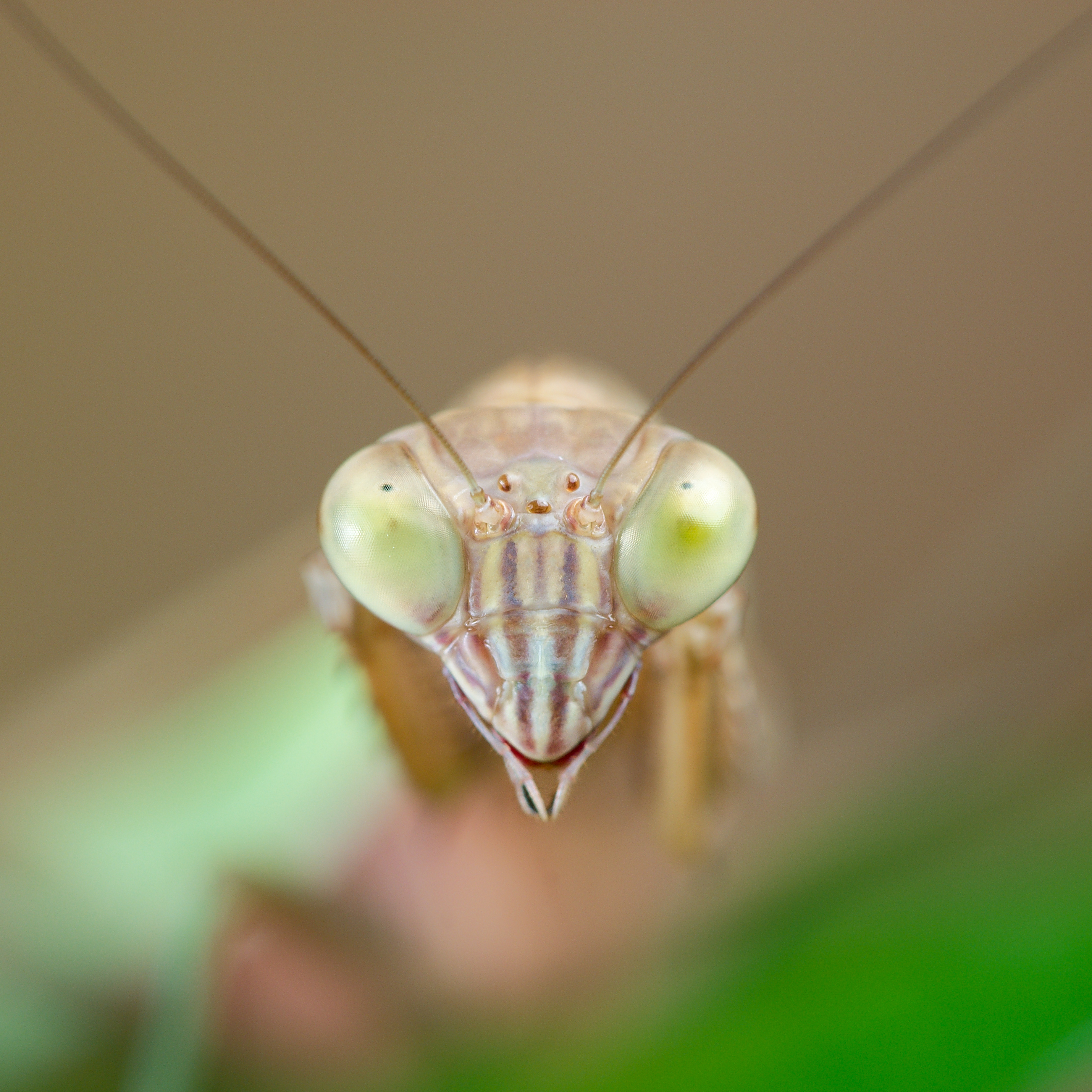 "Tenodera sinensis" Chinese mantis